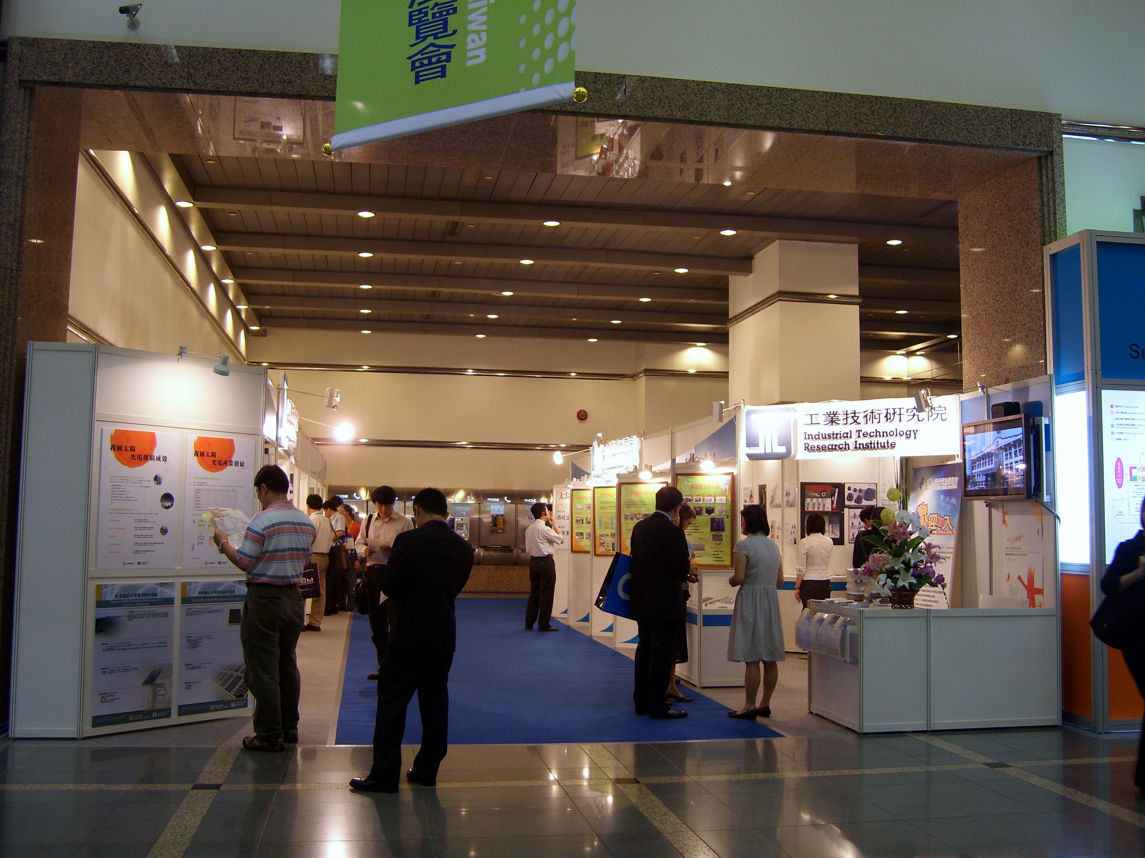 Industrial Technology Research Institute at 2007 PV Taiwan.